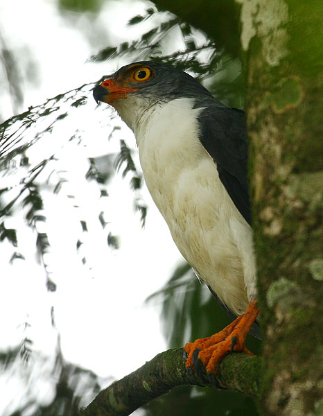 Semiplumbeous Hawk near La Selva, Costa Rica, Caribbean lowlands.